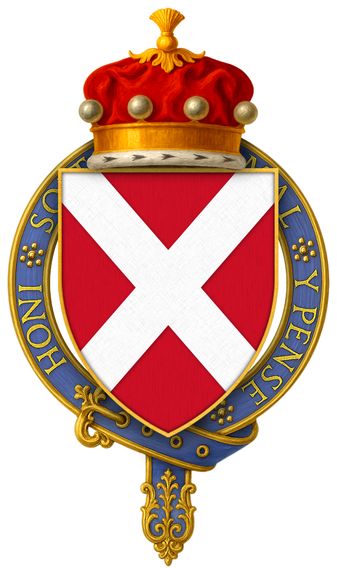 Coat of Arms of Sir John Neville, 3rd Baron Neville de Raby, KG BELTZ, George Frederick, Memorials of the Order of the Garter from Its Foundation to the Present Time, London: William Pickering, 1841. “Sir John Lord Nevil of Raby… Arms: Gules a saltire Argent.” FOSTER, Joseph, Some Feudal Coats of Arms from Heraldic Rolls 1298-1418, London: James Parker & Co., 1902. “Nevill, Raff of Raby, baron 1295 - bore, gules, a saltire argent; Borne at the siege of Rouen 1418 by Ralph, Earl of Westmoreland, K.G., see Monumental Effigy; Ascribed also to Sir Randolph banneret, in Arundel Roll, and to Robert of Raby, in Grimaldi Roll; and to another Robert, in Dering Roll. Richard, K.G. 1436, Earl of Salisbury (and his son Richard, K.G., Earl of Warwick), differenced, with a label (3) gabony argent and azure, his brother (a) William, lord Fauconberg, with a mullet sable, (b) his brother George, lord Latimer with a pellet, and (c) his brother Edward, lord of Abergavenny, with a rose gules. (F.) Harl. MS. 1418 fo. 49b”